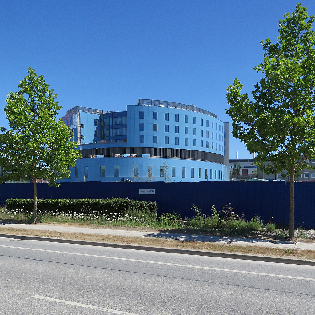 Royal Papworth Hospital nearer completion